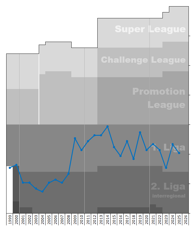 Chart of end-season table positions of USV Eschen/Mauren in the Swiss football league system. Data source: RSSSF, , football.ch